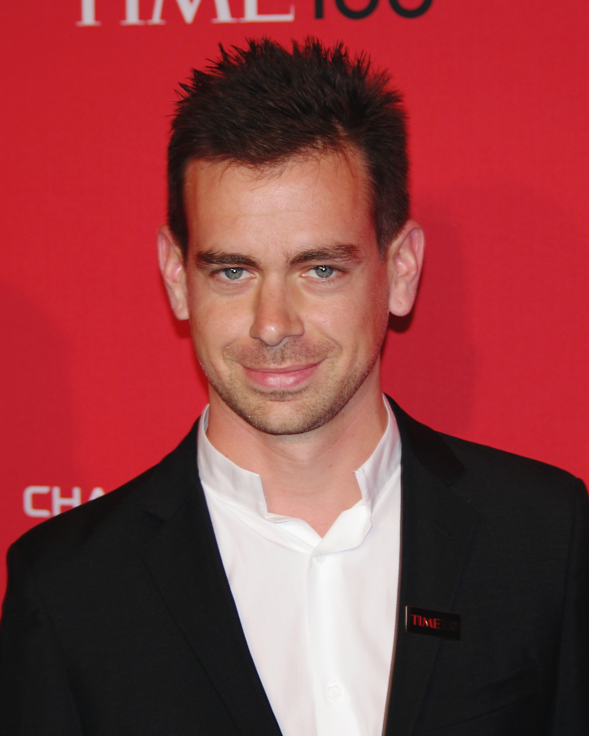 Jack Dorsey at the 2012 Time 100 gala.